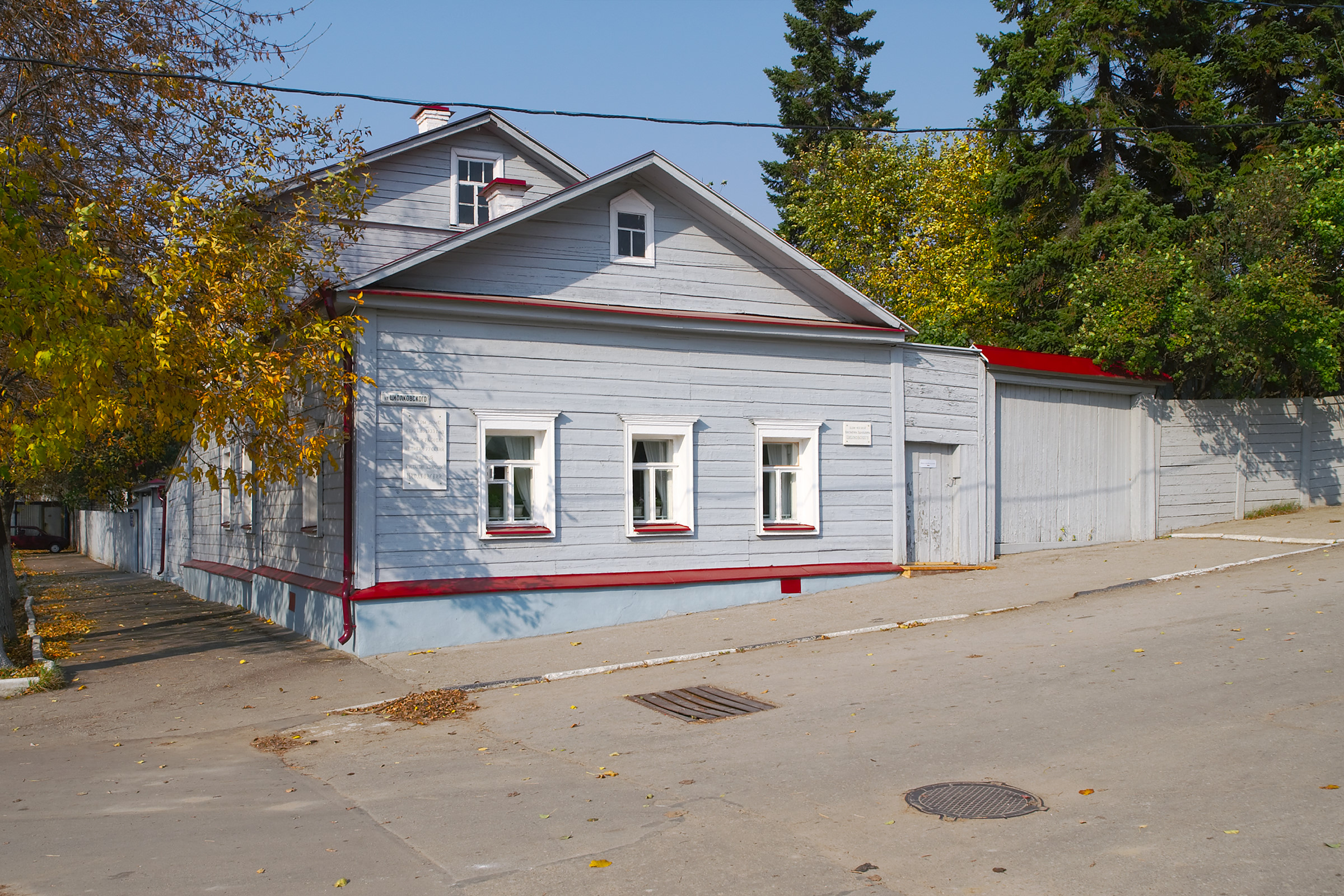 Tsiolkovsky memorial house in Kaluga.